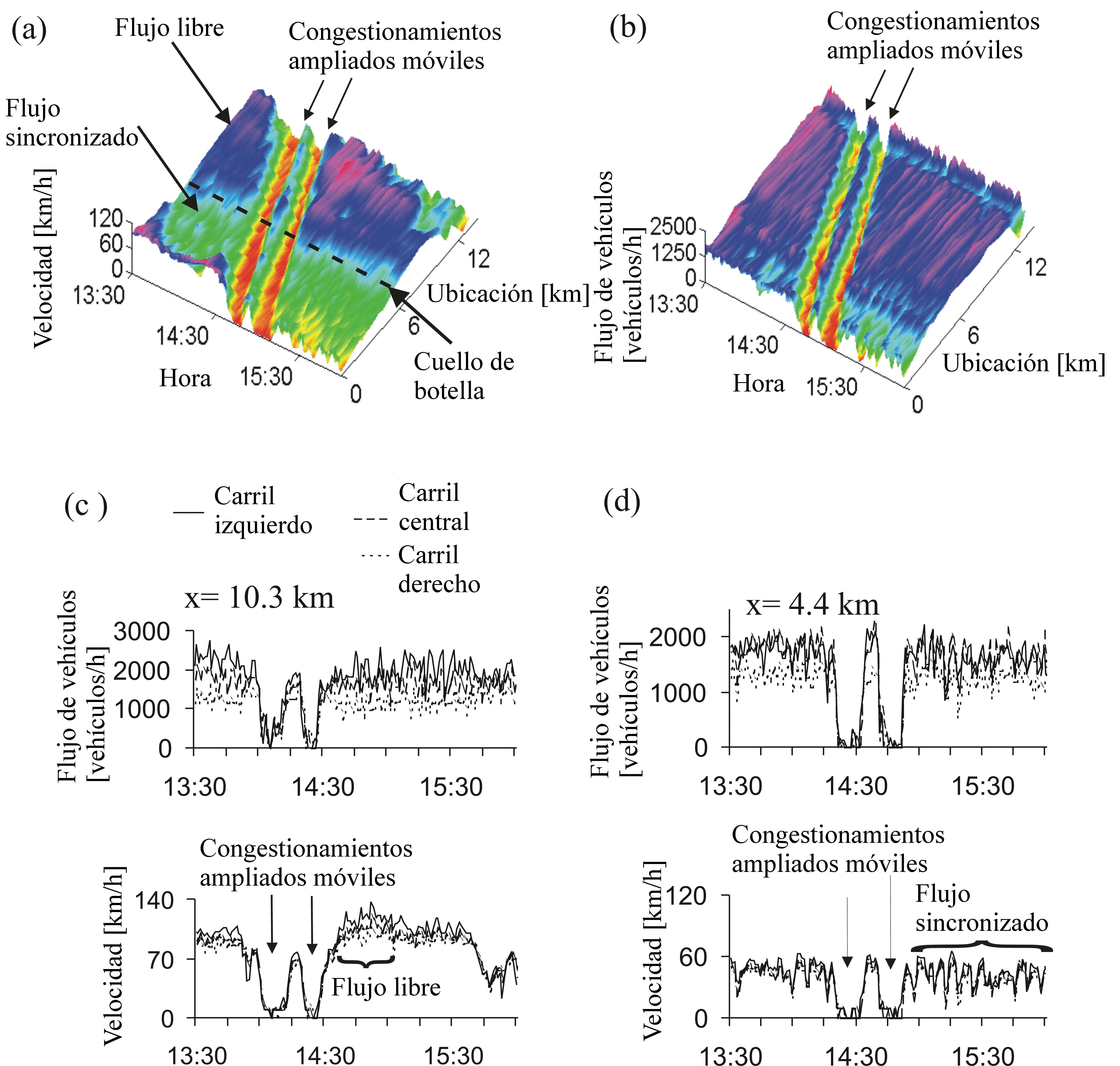 ASDA Measurements